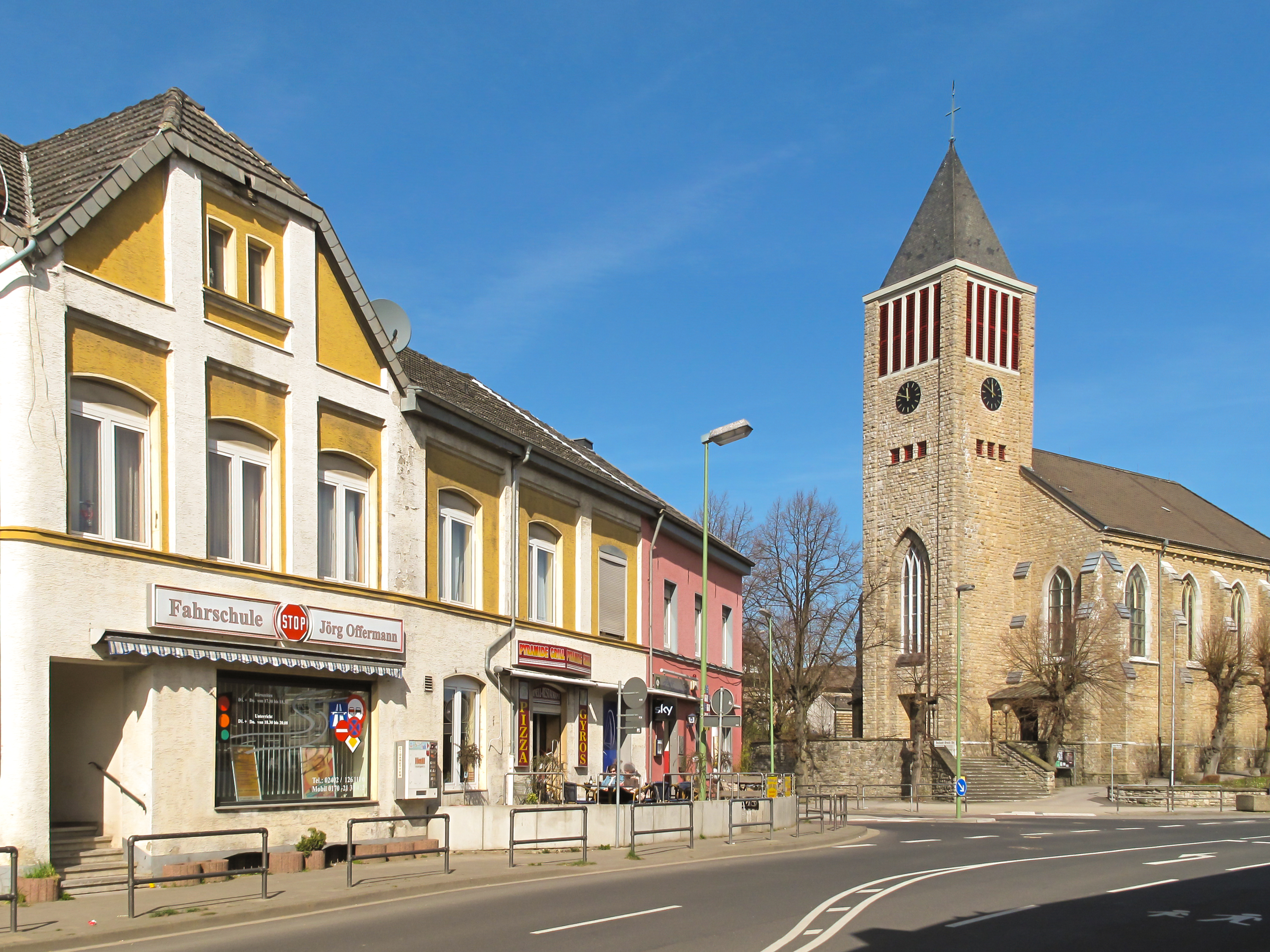 Mausbach, church in the street